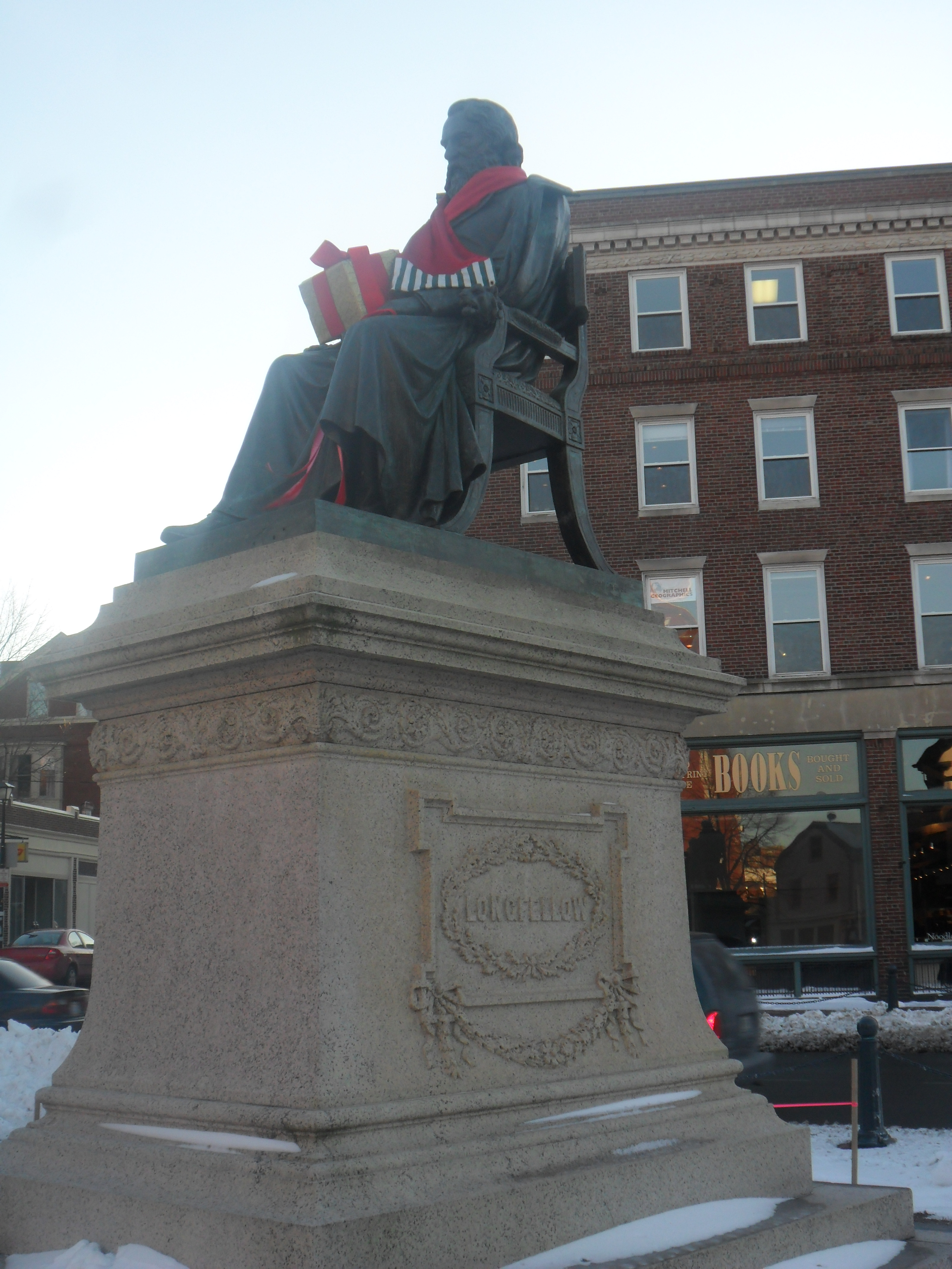 The Henry Wadsworth Longfellow Monument in Portland, Maine in December 2010